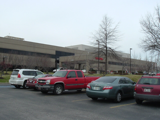 Toyota Motor Manufacturing Kentucky visitor center. Taken by the uploader, Censusdata; all rights released.